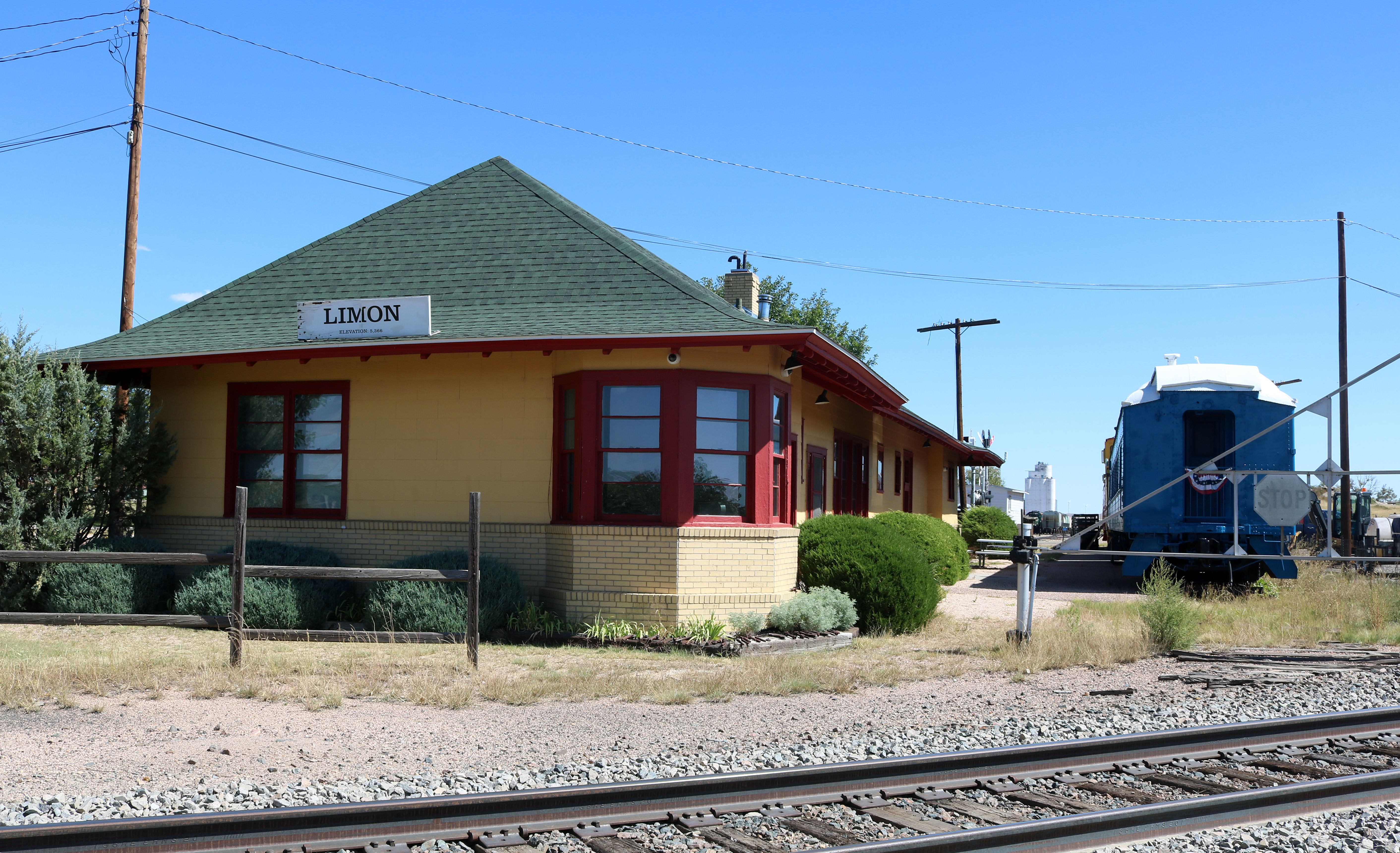 The Limon Railroad Depot, located at 899 1st Street in Limon, Colorado.